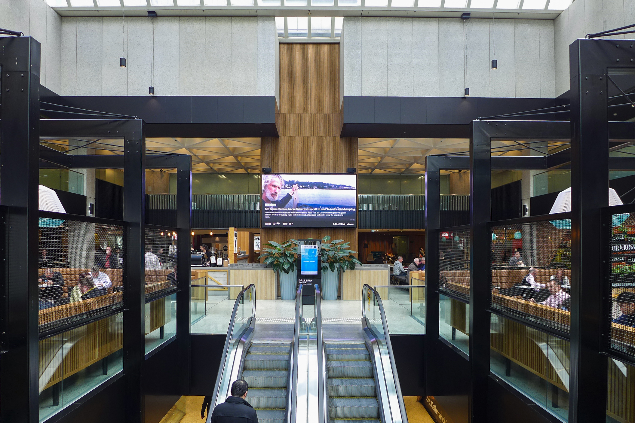 385 Bourke Street Interior